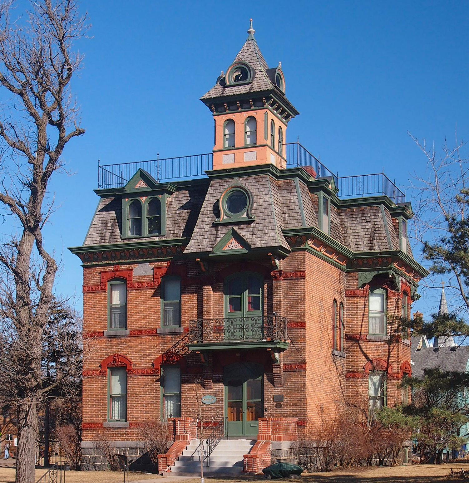 Michael Majerus House (now Victorian Oaks Bed & Breakfast), 404 9th Ave S, St. Cloud, Minnesota, USA. Viewed from the west-southwest.